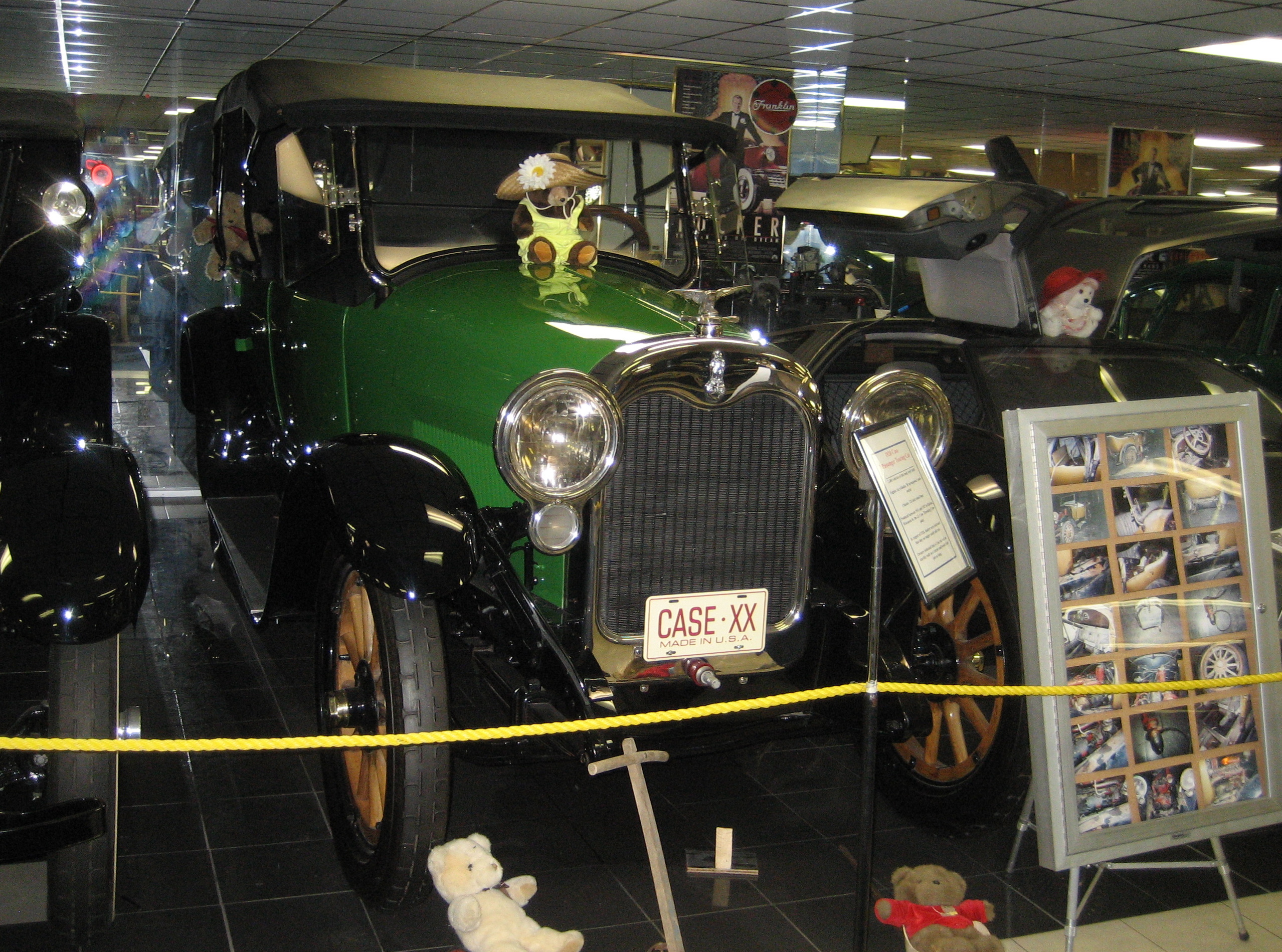 1920 Case 7 passenger touring car, on display at Tallahassee Automobile Museum with unfortunate accumulation of irrelevant kitsch. Automobile has 6 cylinder 50hp engine.